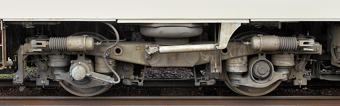 Nippon Sharyo Type ND719 bogie truck of Aizu Railway Kiha 8500 series ( Kiha 8504 )